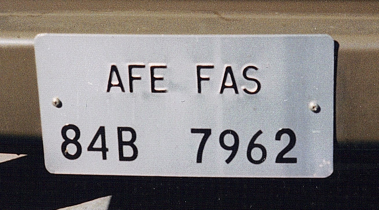 Automobile license plate. US Air Force in Europe. FAS = Flesland Air Station, Norway